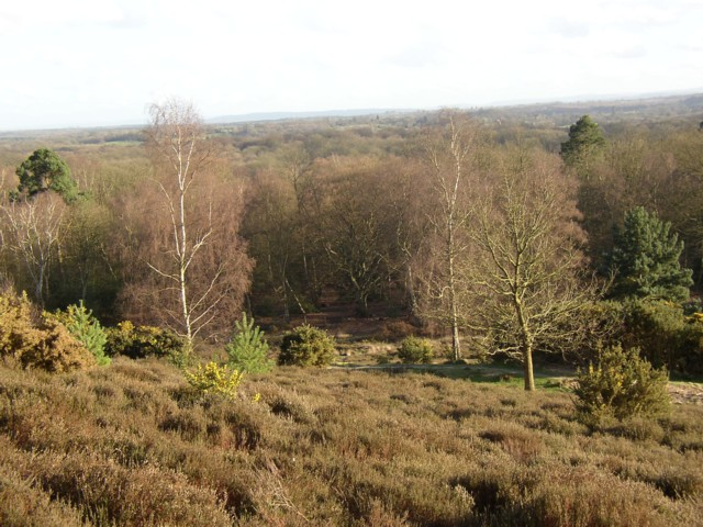 Hambledon Heath. This heathland is being restored. The heather-covered areas had been colonised by trees and bracken.